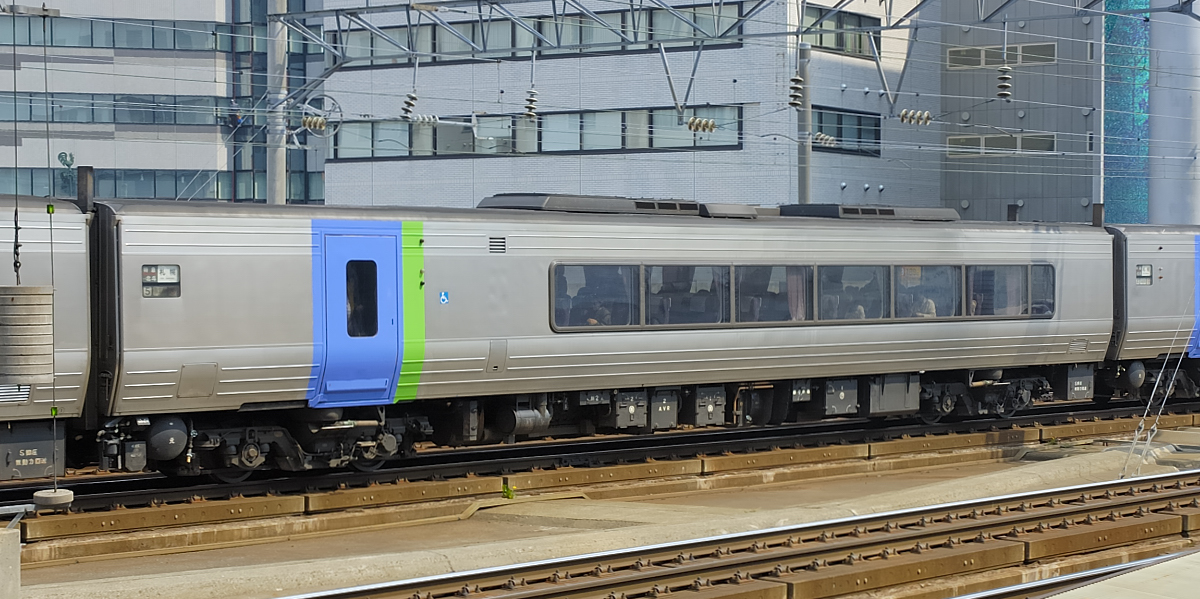 JR Hokkaido KiHa 281 series DMU car KiHa 280-4 at Sapporo Station on a Super Hokuto service